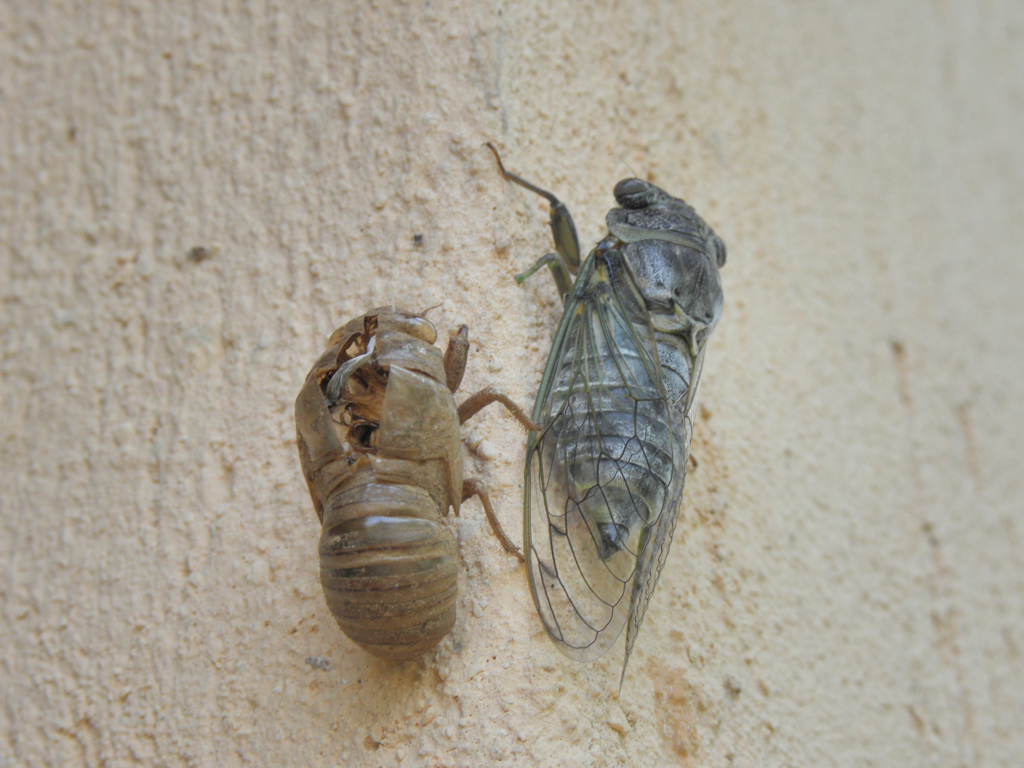 4th step of the molting of the cicada